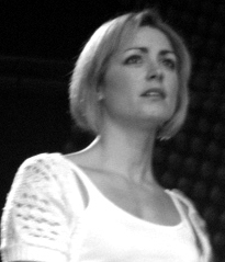 Own Photo released into the public domain Aoife Mulholland performing at Leicester Square in the 2007 free event 'West End Live': to show case The Sound Of Music in which she is appearing at the London Palladium.